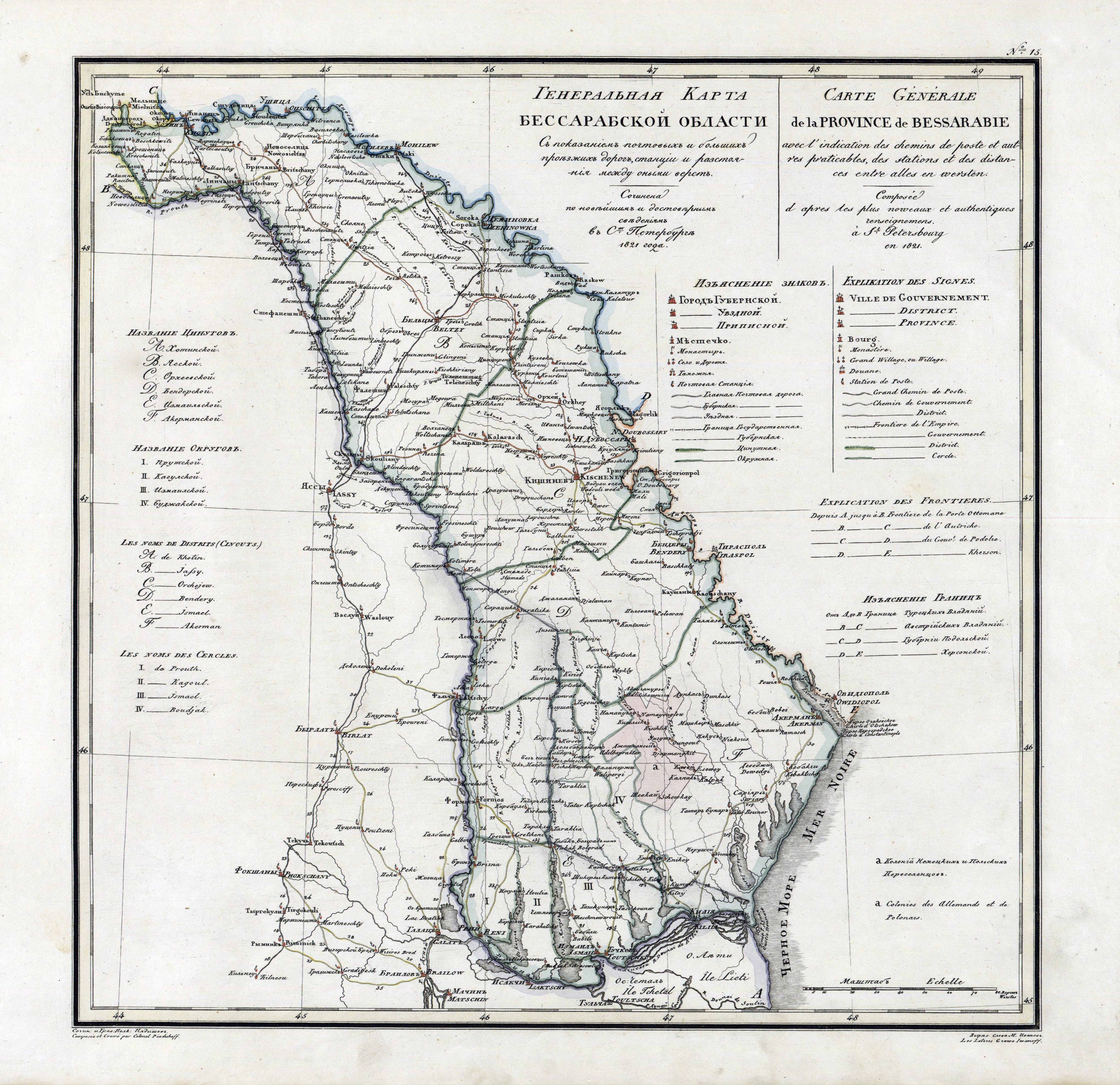 Bessarabia governorate